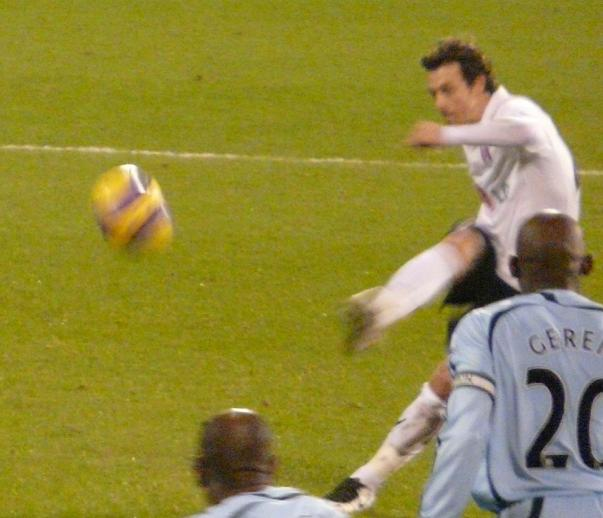 Welsh football (soccer) player Simon Davies (footballer born 1979)